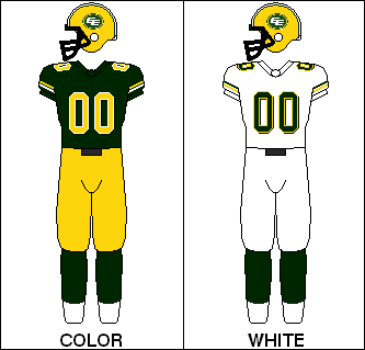 The Edmonton Eskimos wore white pants with their away jerseys in 2004.